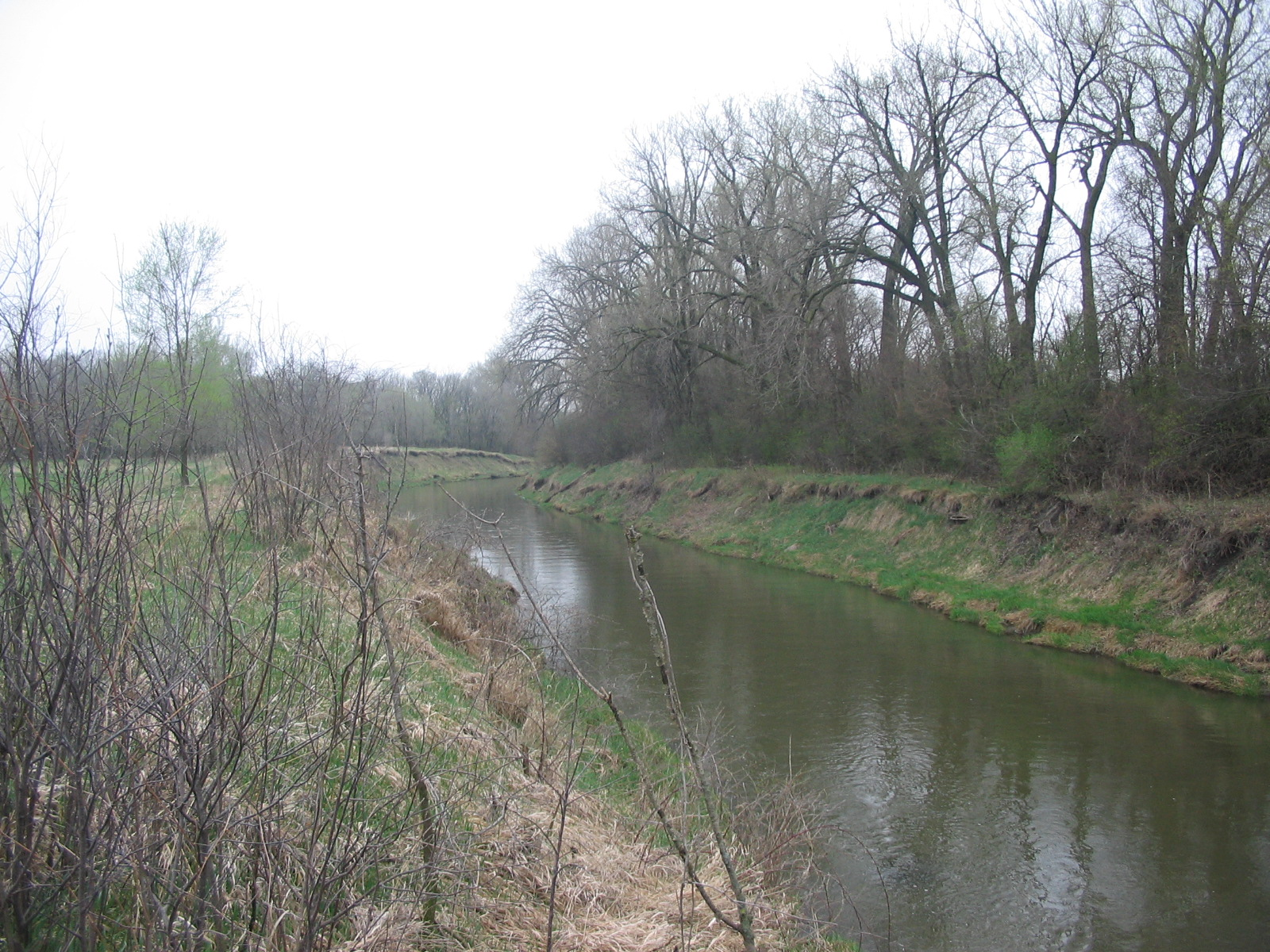 (Shaun Murphy)